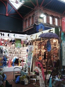 Interior market view of George's St arcade